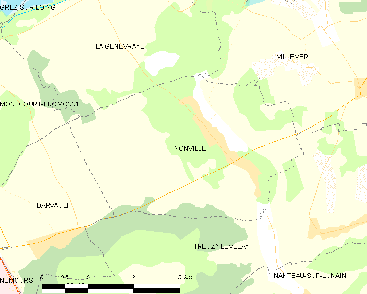 Map of French municipality Nonville